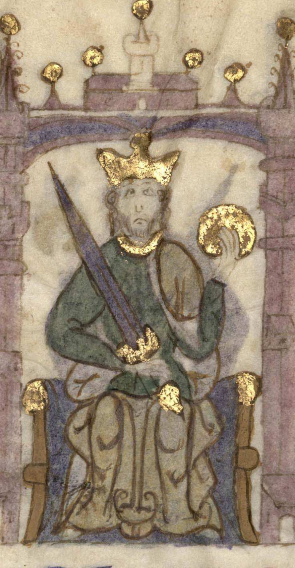 Garcia Sánchez III of Navarre